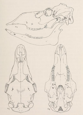 Sketch of caribou skull.